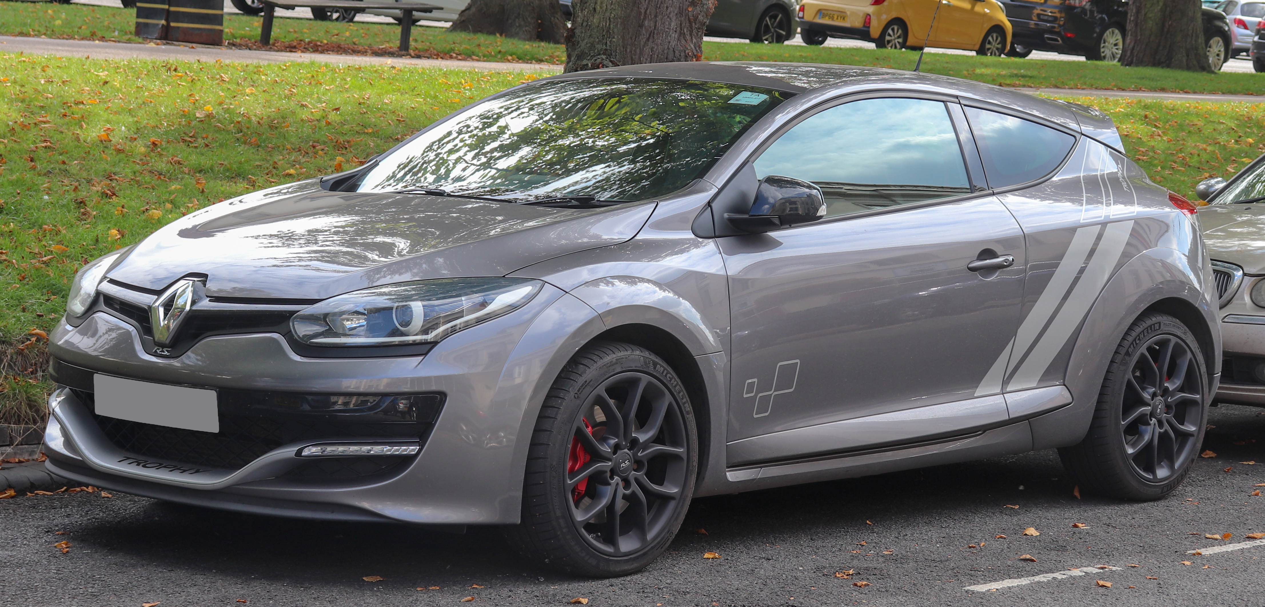 2015 Renault Megane Renaultsport RS Trophy 2.0 Taken in Leamington Spa